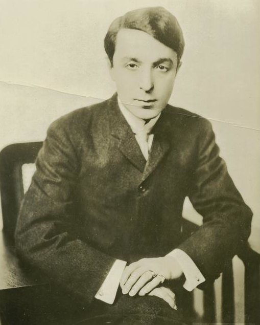 Portrait of Sam Shubert